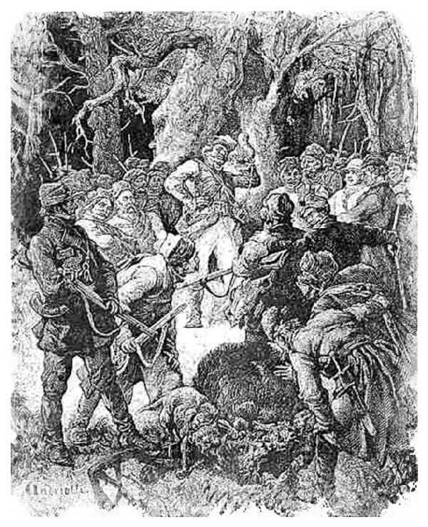 Illustration of Pan Tadeusz, Book 4